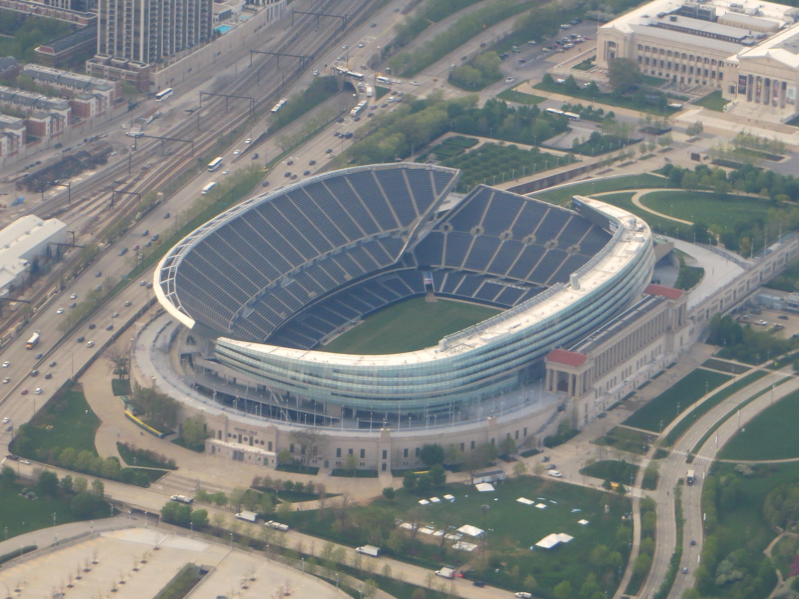 Soldier Field is a football stadium on the Near South Side of Chicago, Illinois, United States. Since 1971 Soldier Field has been home of the National Football League's Chicago Bears, and is the oldest NFL stadium. With a capacity of 61,500, it is the second smallest stadium in the NFL. Soldier Field reopened in 2003 after an extensive interior renovation.